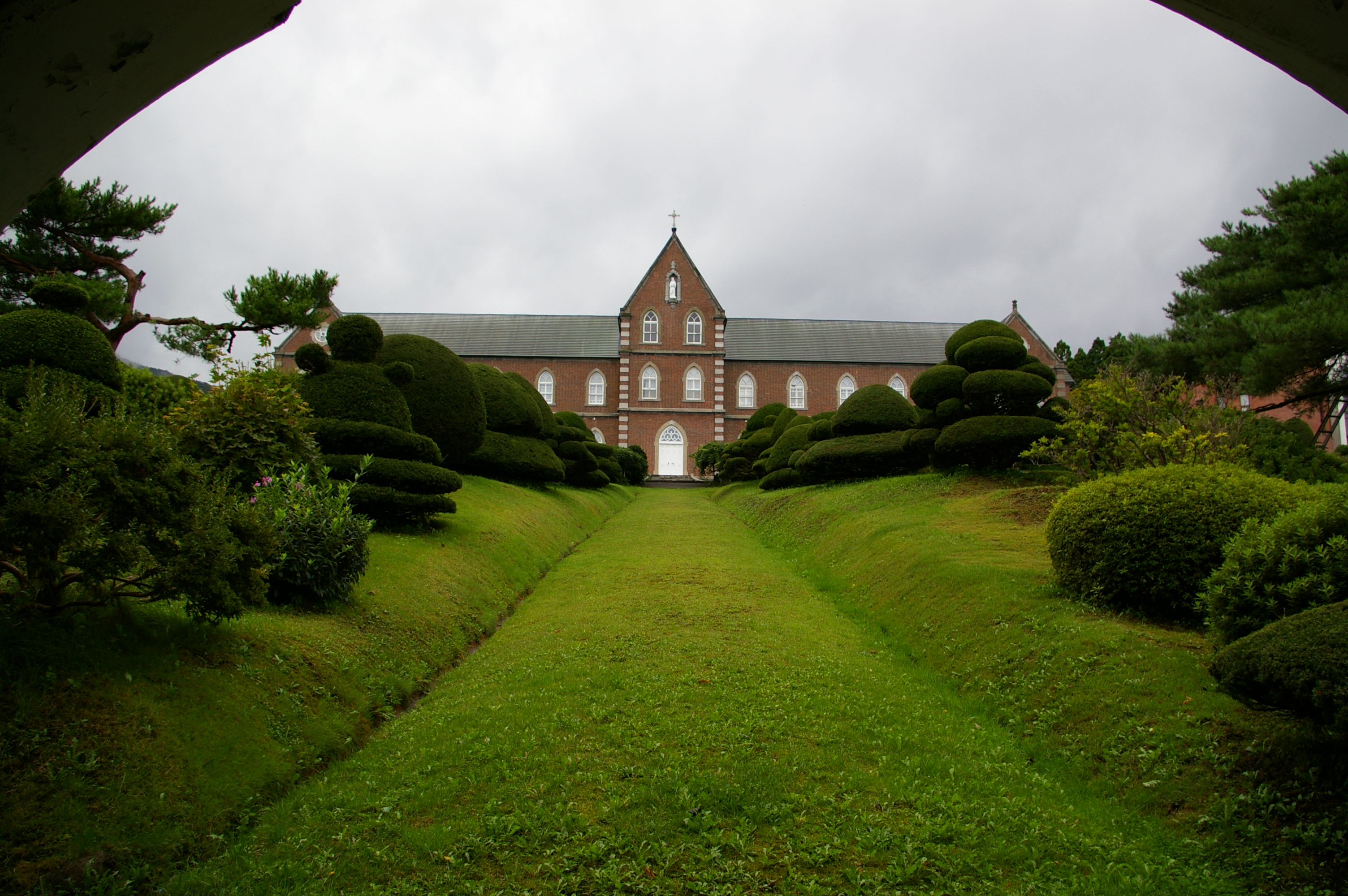 Main building of Tobetsu Trappist Monastery in Hokuto City, Hokkaido, Japan